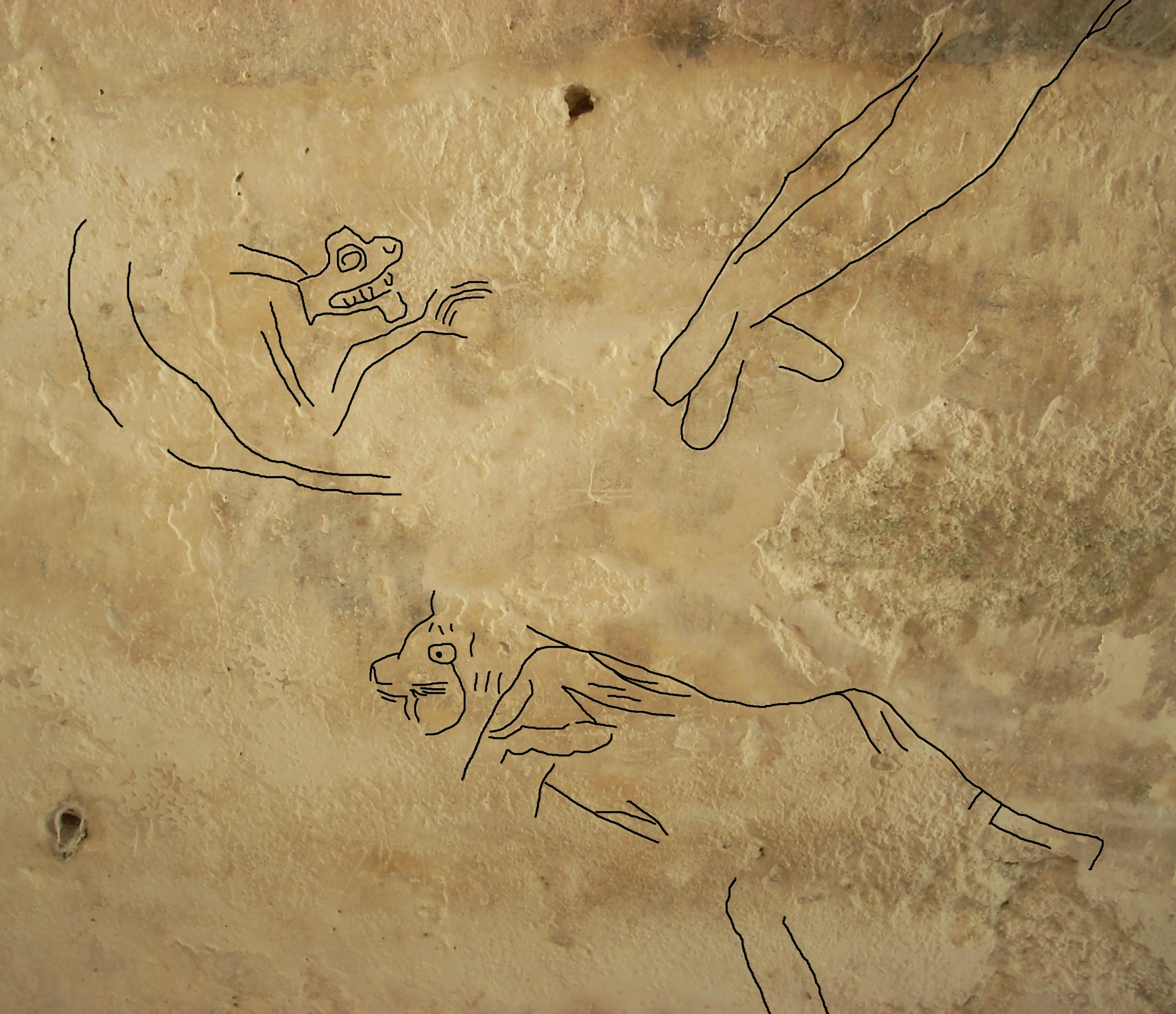 Zoomorphic graffit at La Blanca, Petén, Guatemala, representing an iguana and a jaguar. scored lines overwritten in black with software for clarity.